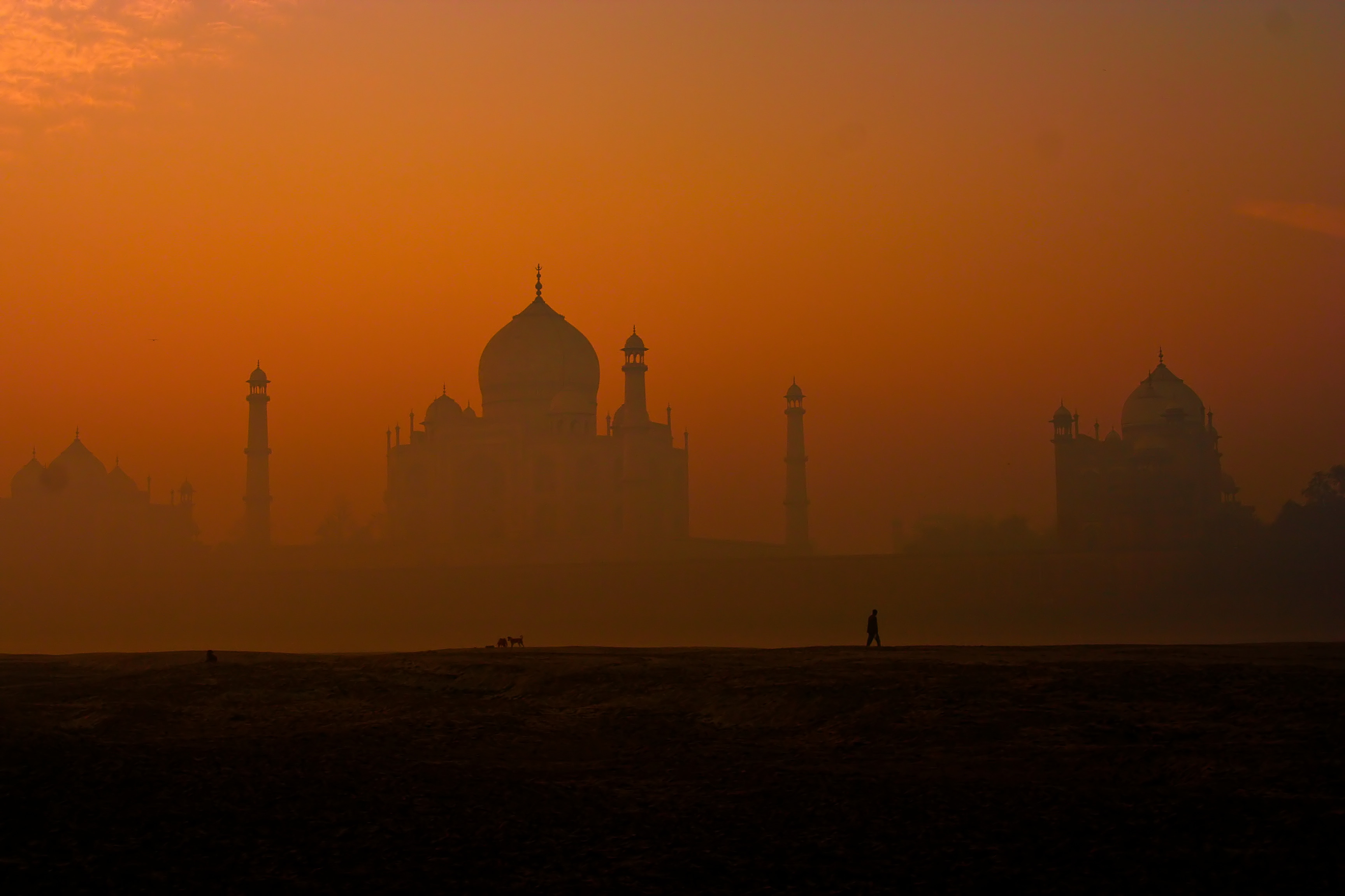 A shot of Tajmahal on a foggy morning